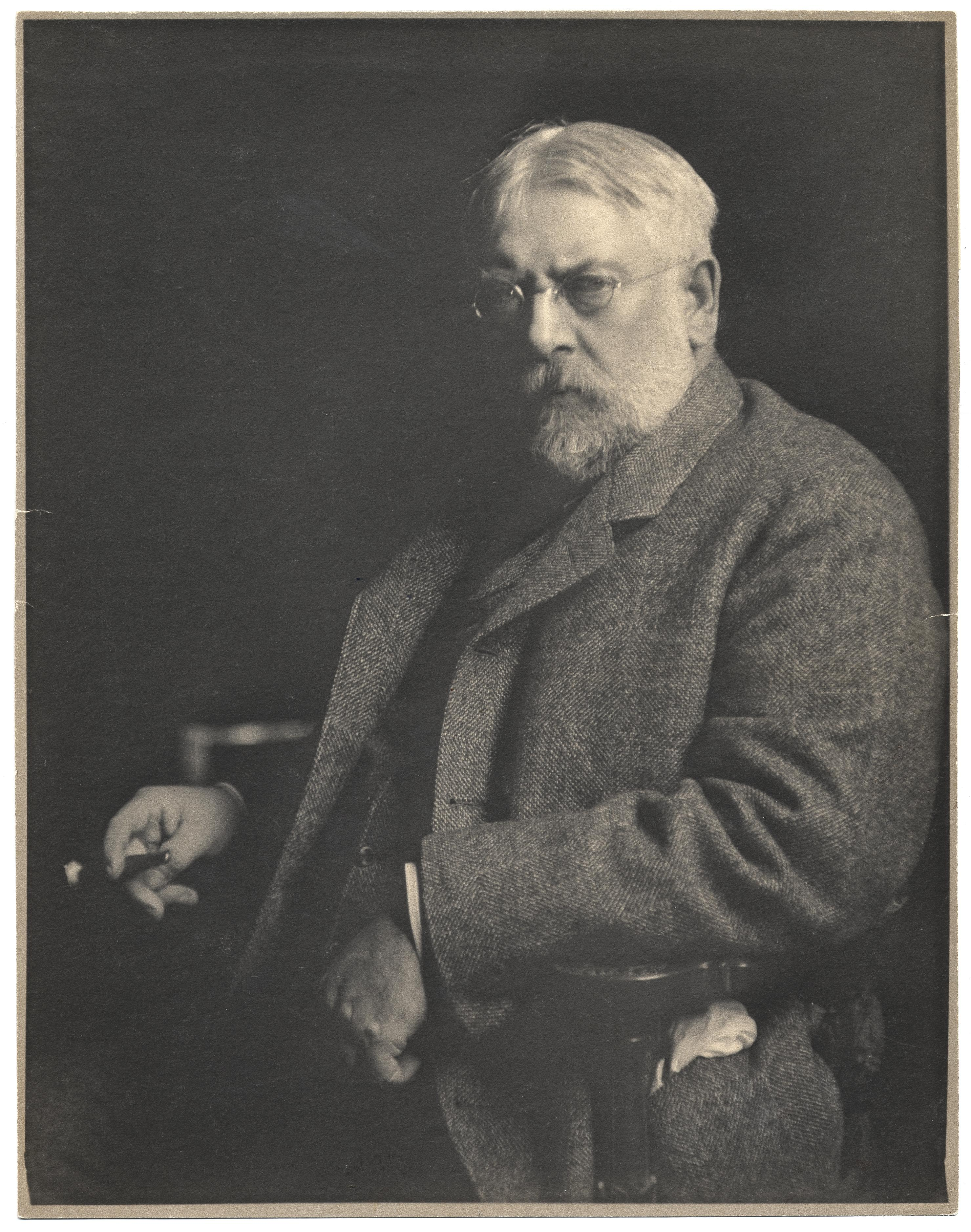 Description: One photograph of Henry Ward Ranger; photographer unidentified. Ranger, Henry Ward, 1858-1916 -- Photographs Creator/Photographer: Unidentified photographer Medium: Black and white photographic print Dimensions: 23 cm x 19 cm Date: c. 1910 Persistent URL: Repository: Archives of American Art Accession number: aaa_miscphot_6912